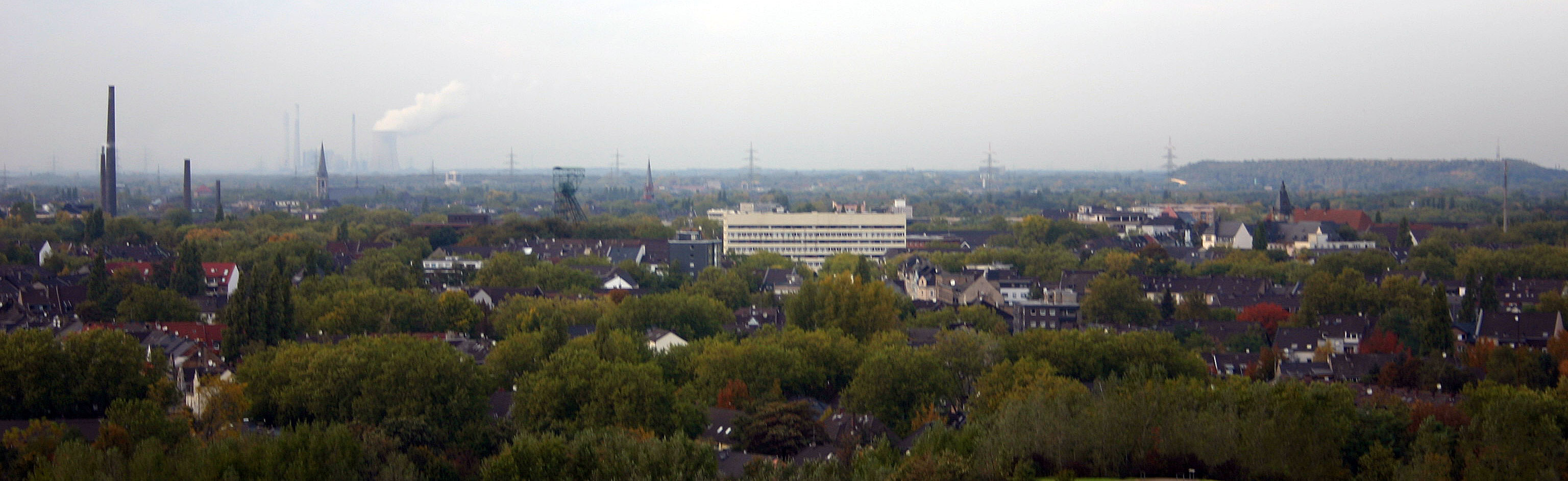 View to Duisburg-Hamborn from an disused blast furnace, Landschaftspark Duisburg-Nord, Germany.